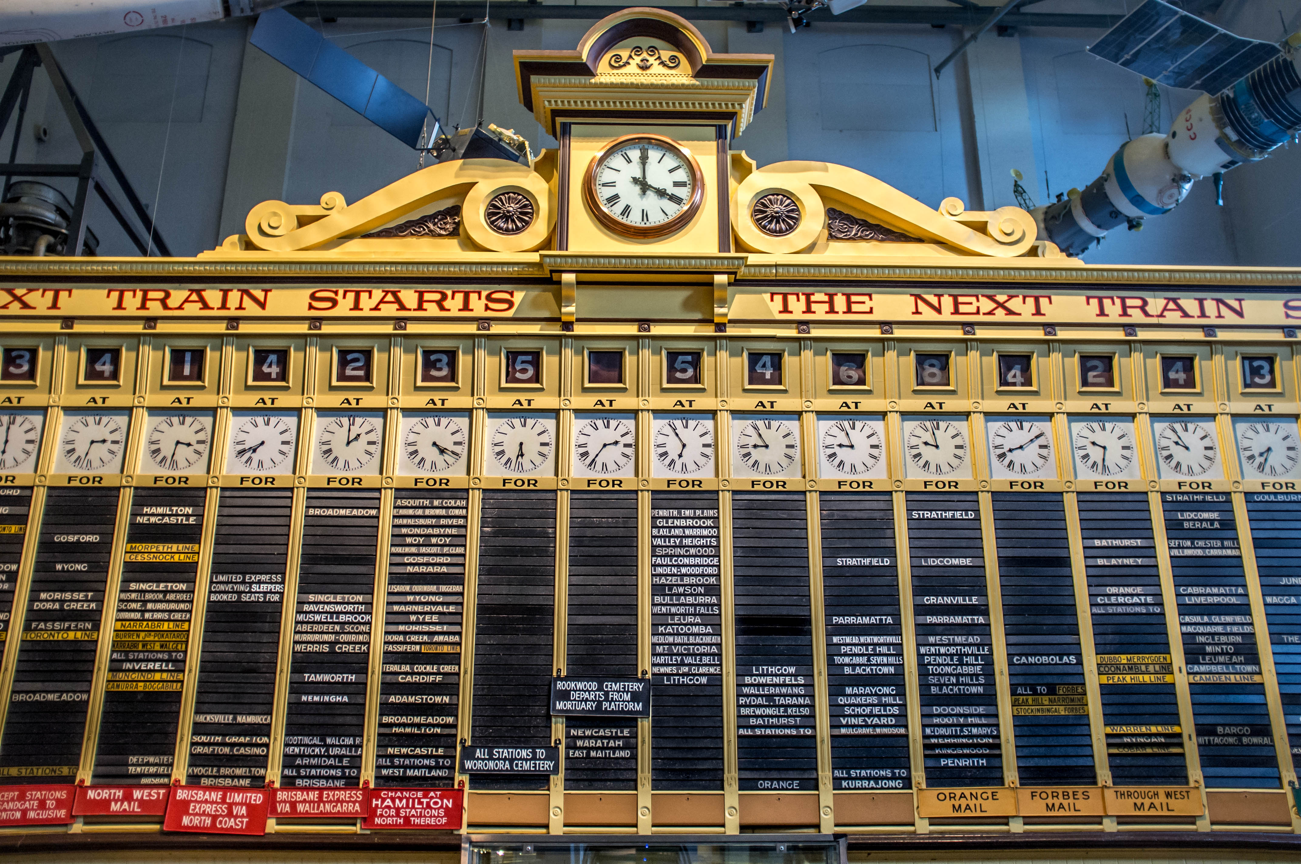 Central Station indicator board c.1905 at Powerhouse Museum